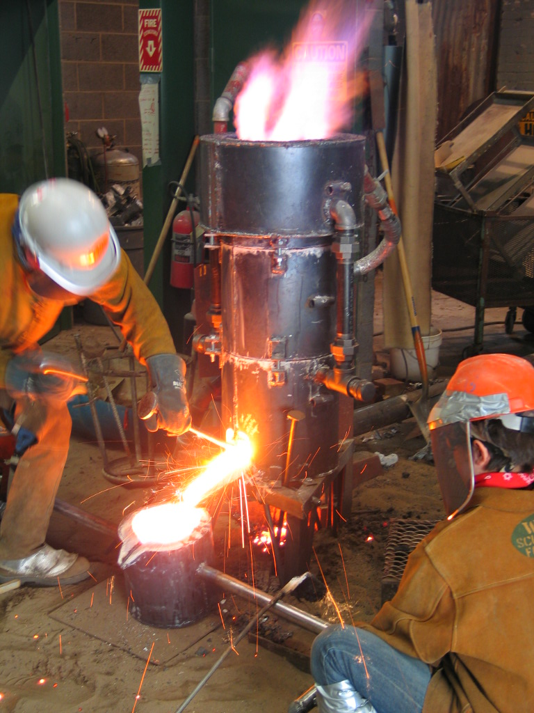 Taping at a small cupola furnace